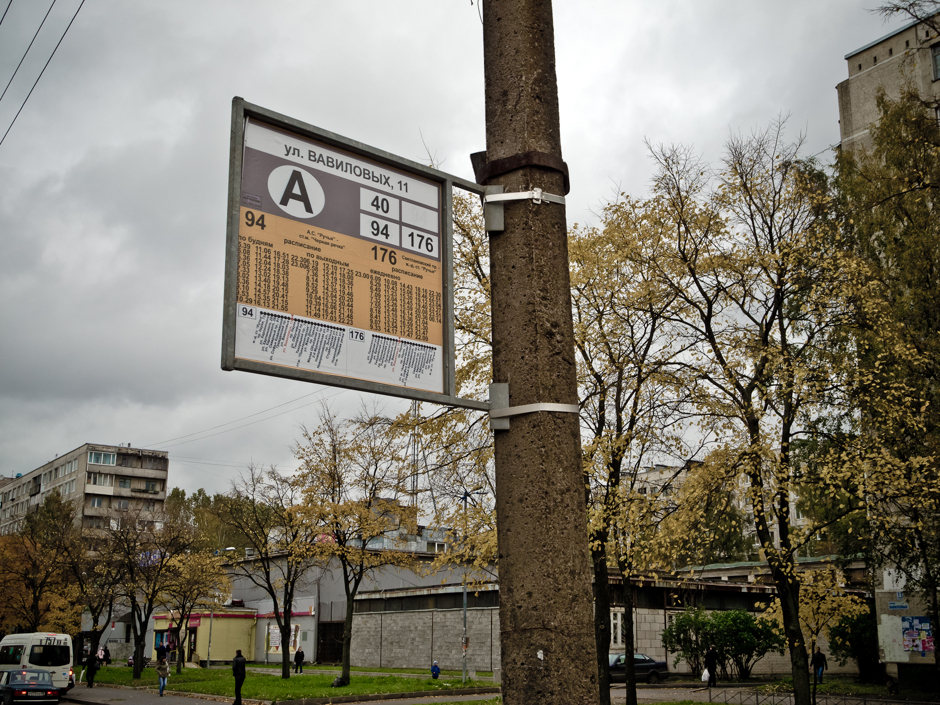 Spb, Vavilovykh street